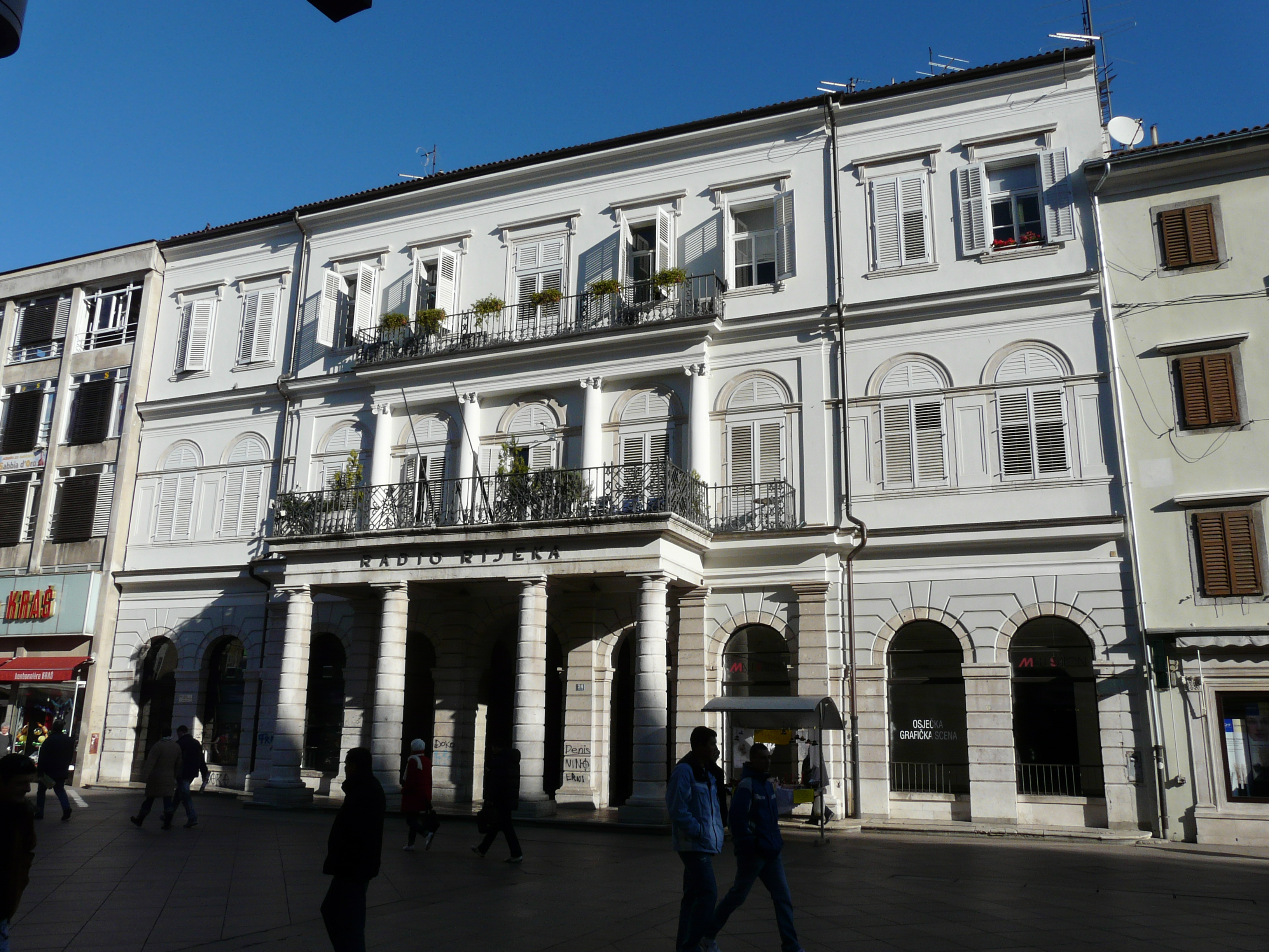 Radio-RIjeka building on Korso str, 24, Rijeka, Croatia.